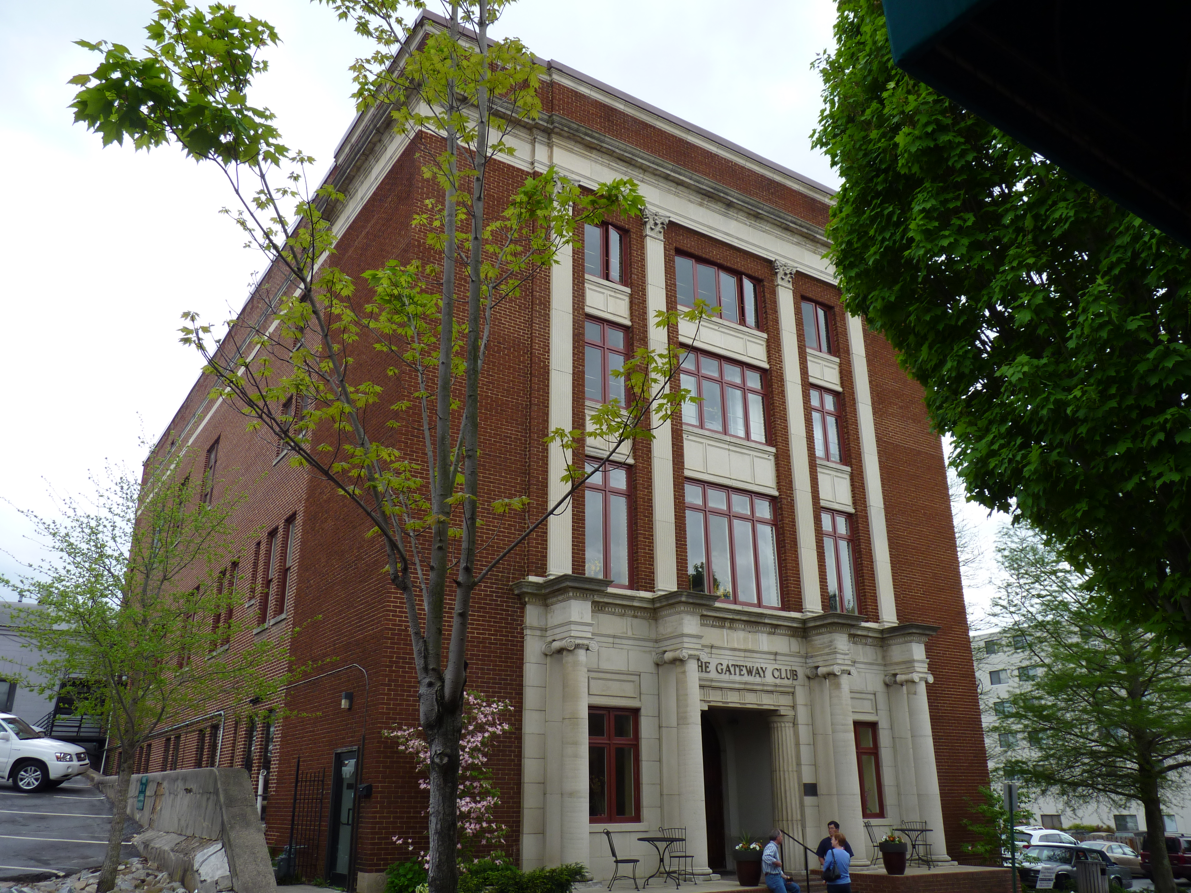 Masonic Hall - Waynesville, NC now called the Gateway Club.